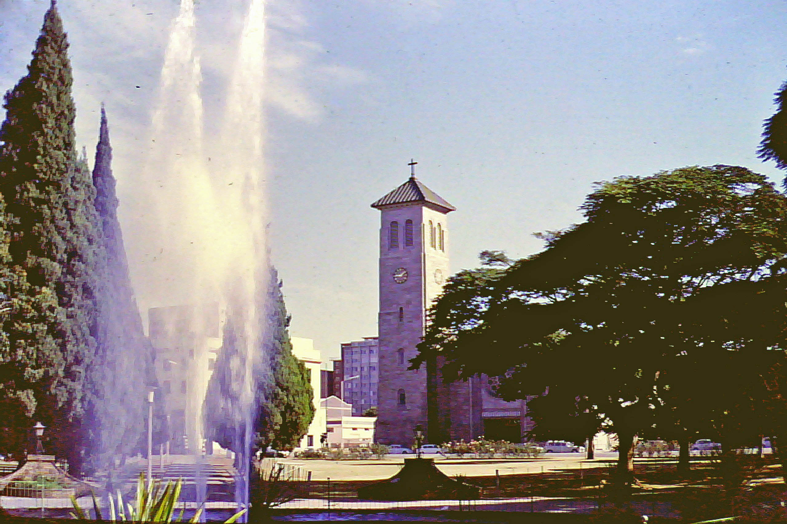 The Anglican Cathedral in Salisbury (now Harare) circa 1975.